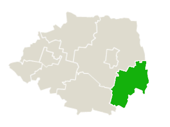 Outline Map of Gmina Orla